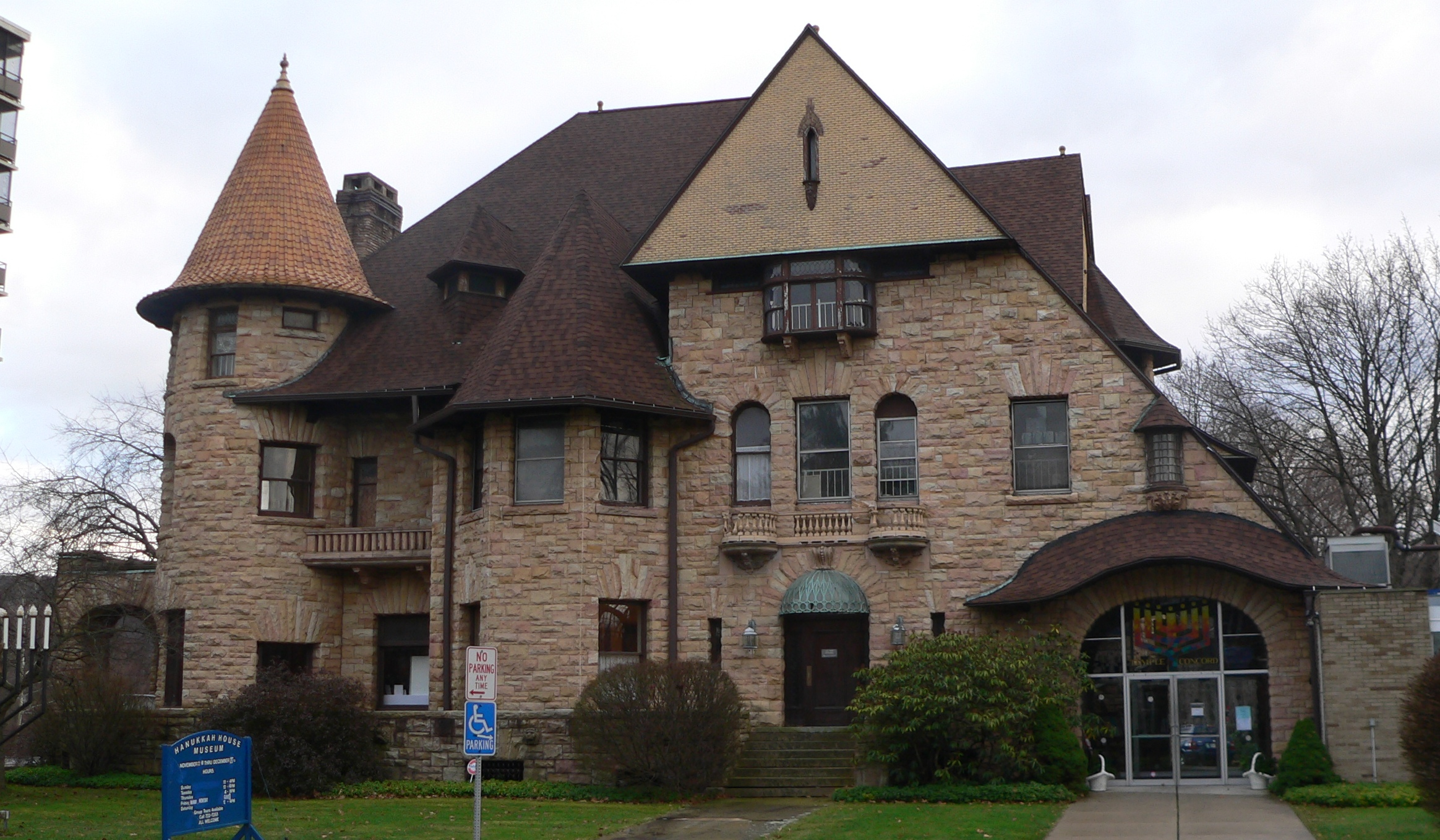 Jonas M. Kilmer House, now Temple Concord, located at 9 Riverside Drive in Binghamton, New York.